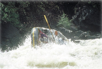 US Forest Service Raft capsizing at Granite Creek Rapids on the Wild and Scenic Snake River, within the Hells Canyon Wilderness of Idaho and Oregon.